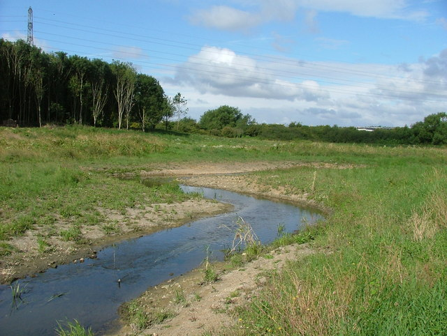 River Ray new meandering channel at Rivermead